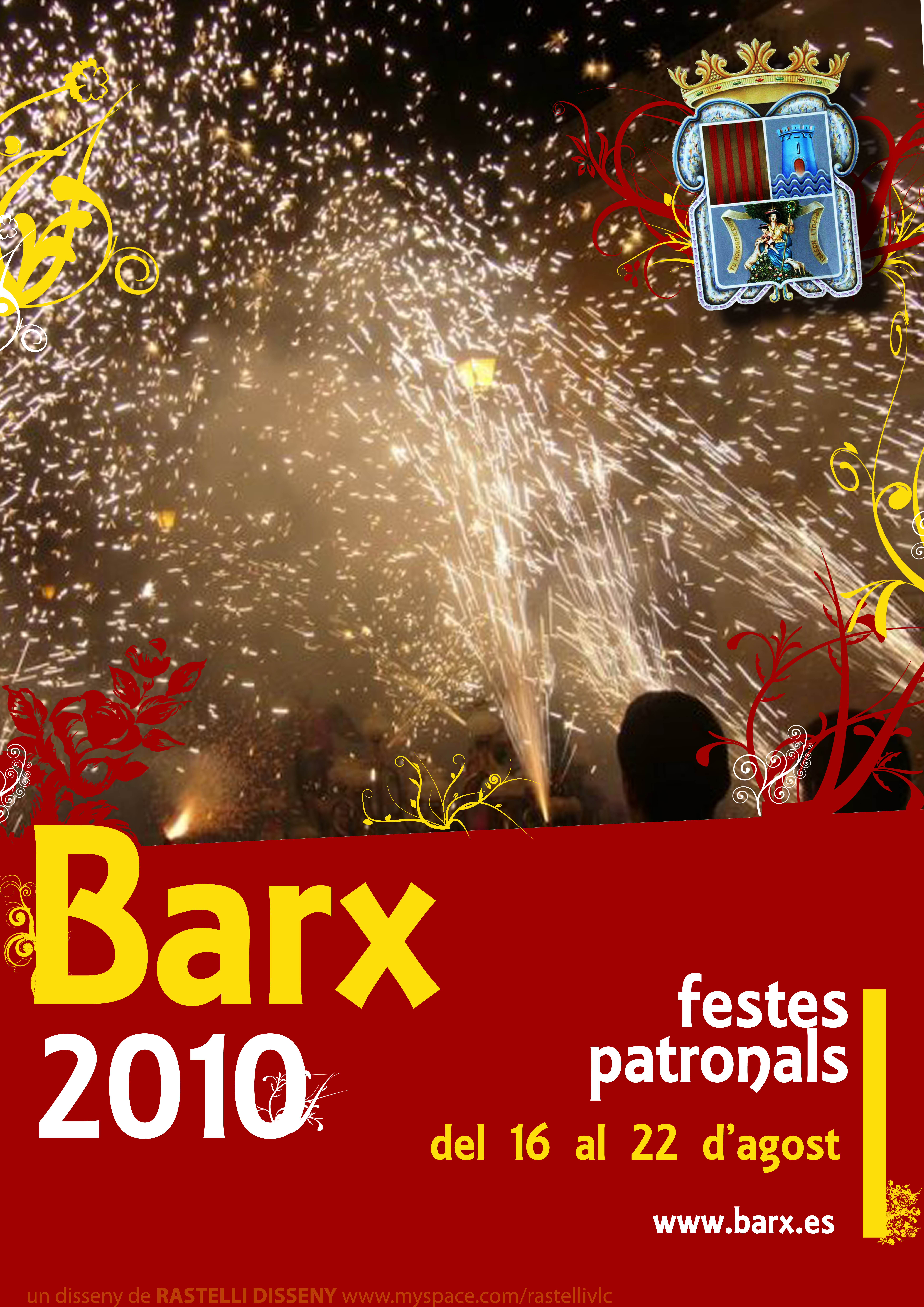 Cartell de les festes de Barx 2010